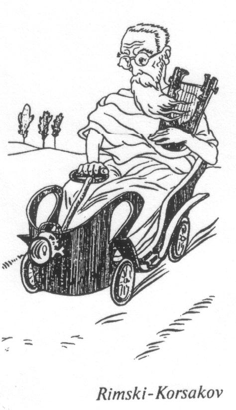 Caricature of Nikolai Rimsky-Korsakov